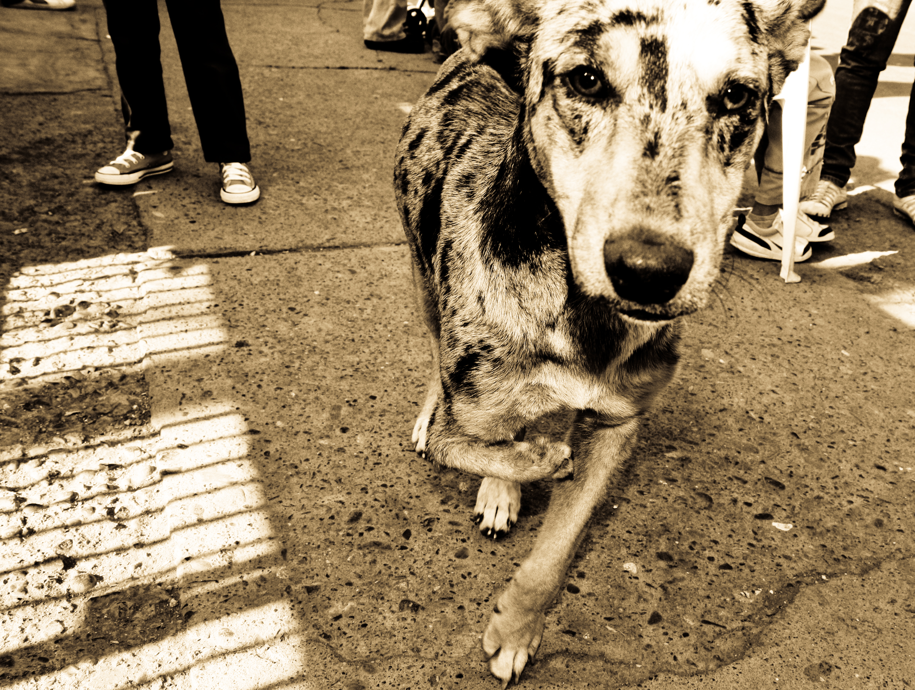 Grind.